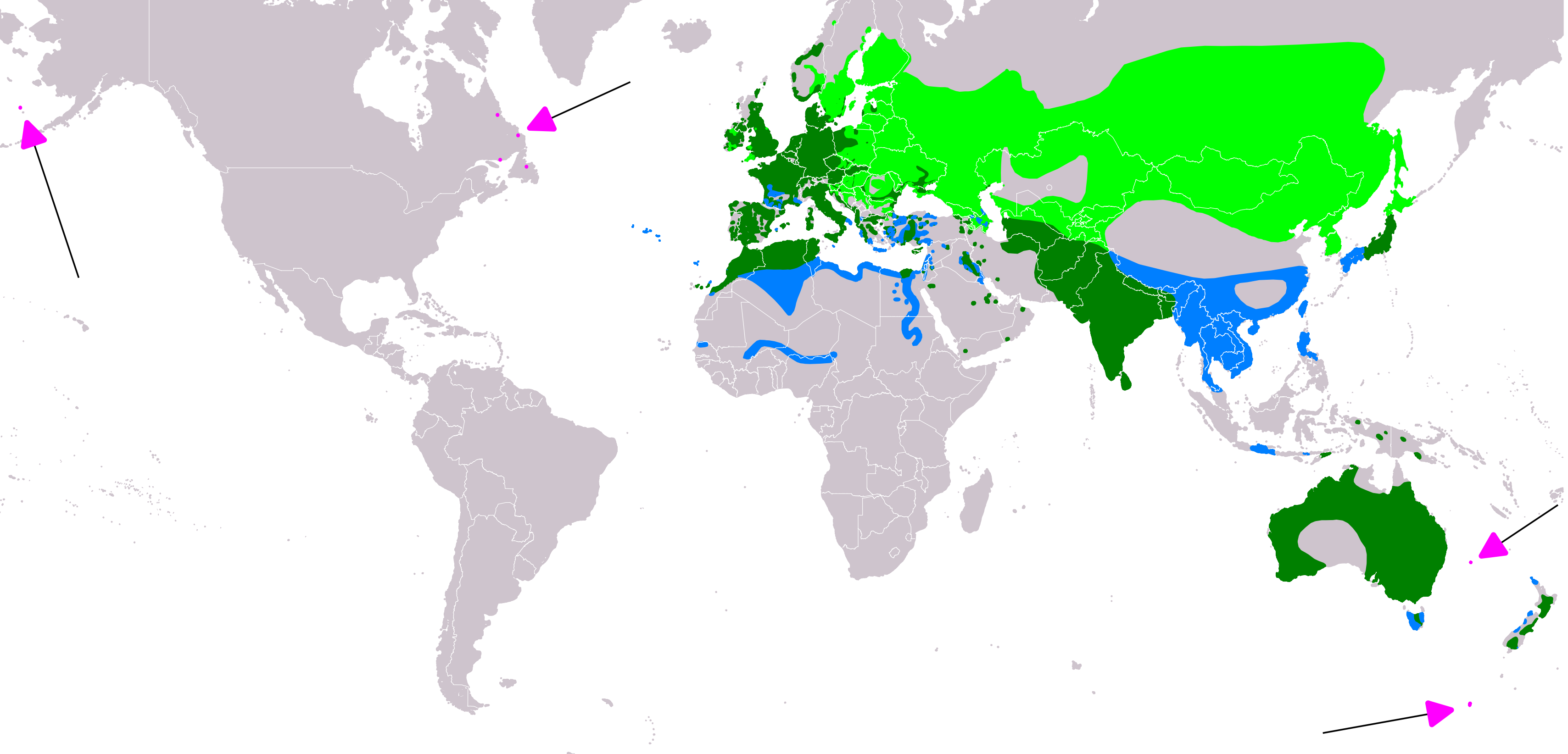 Distribution map of common coot (Fulica atra) according to IUCN version 2019-2 ; key: Legend: Extant, breeding (#00FF00), Extant, resident (#008000), Extant, non-breeding (#007FFF), Extant & Vagrant (seasonality uncertain) (#FF00FF)